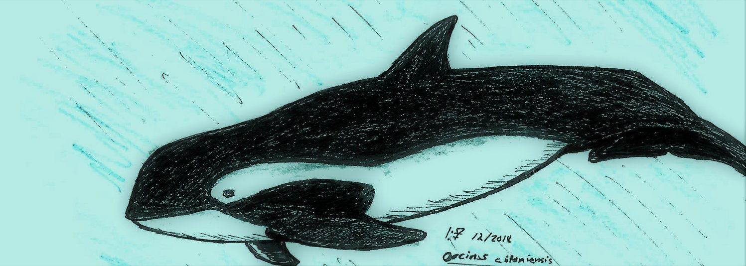 Orcinus.C